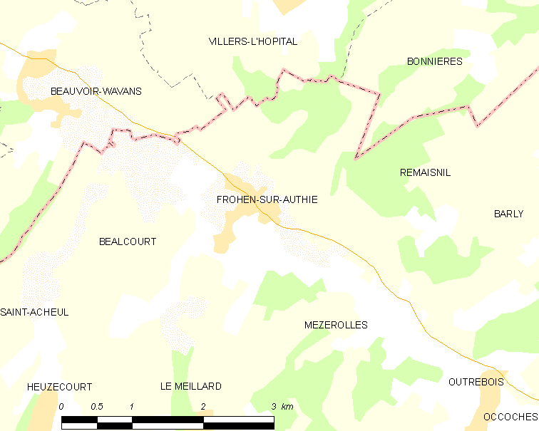 Map of French municipality Frohen-sur-Authie